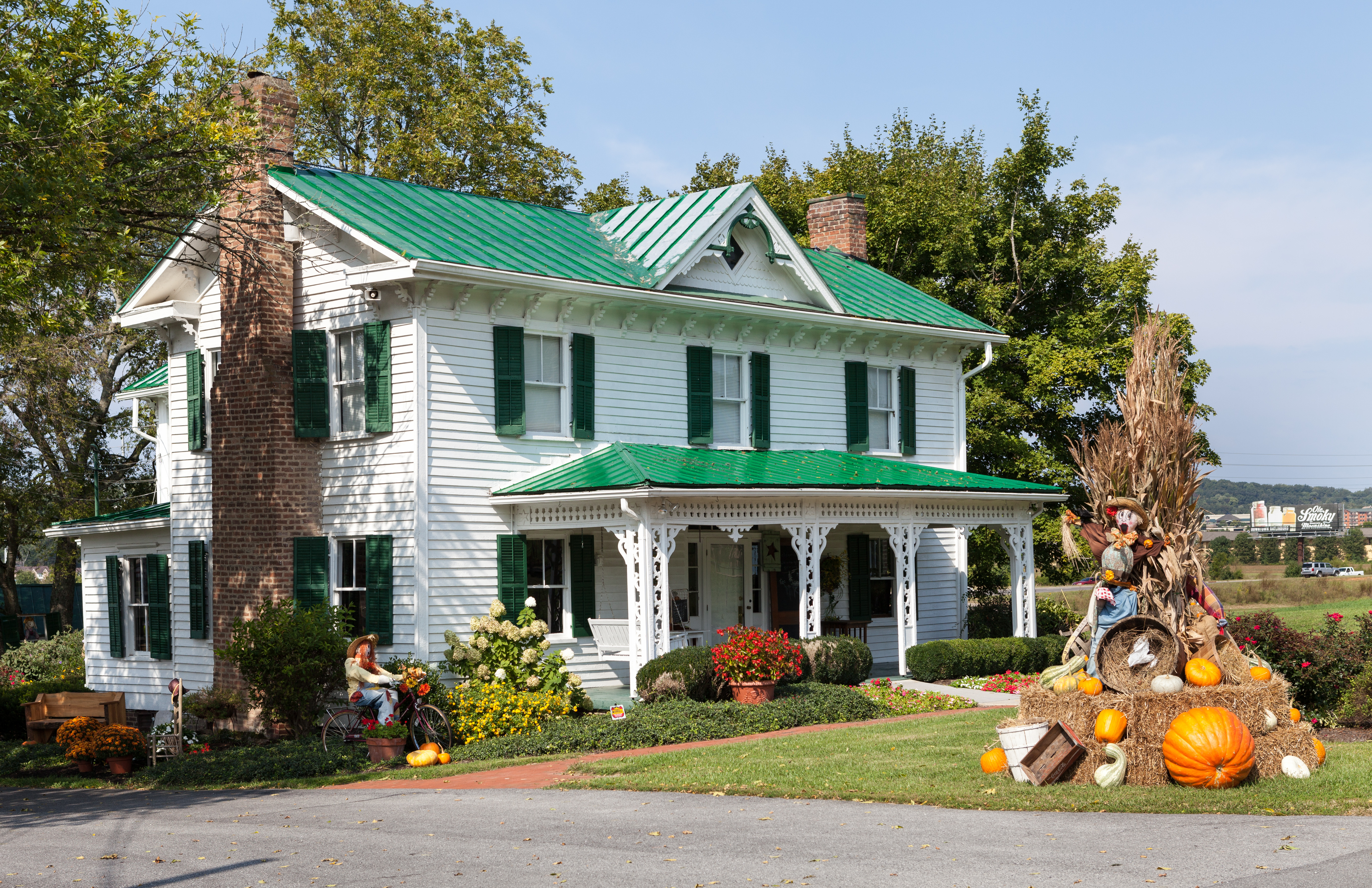 The Riley H. Andes House, a historic home in Sevier County, Tennessee built c. 1890 by Lewis Buckner.